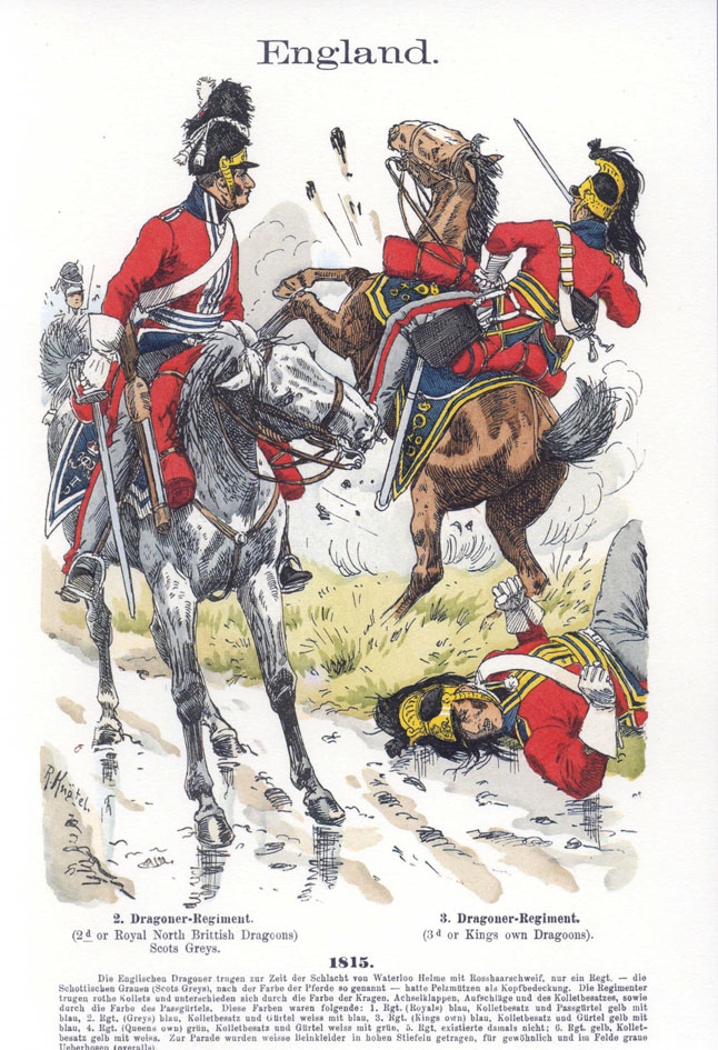 British Army dragoons at the time of the Battle of Waterloo. On the left a rider from the Royal Scots Greys. On the right two members of the 3rd Dragoons (King's Own Dragoons) which later became the 3rd The King's Own Hussars.